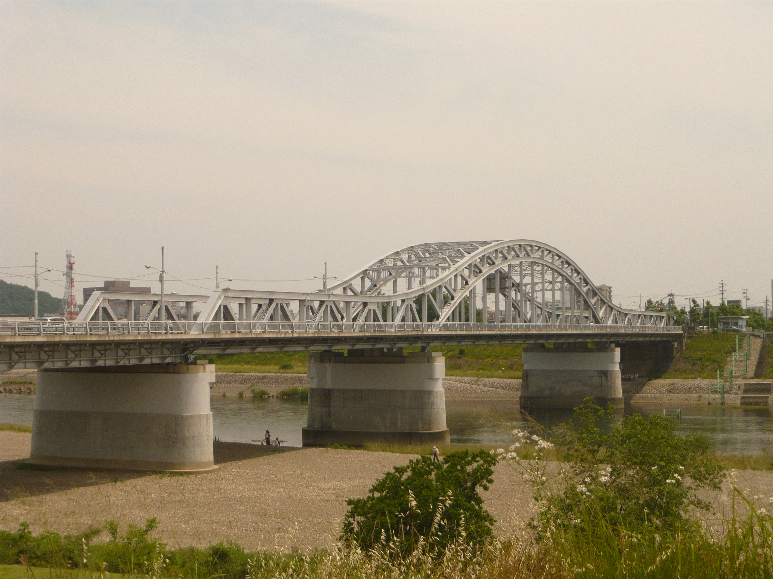 Tyusetu Bridge, Gifu, Gifu, Japan